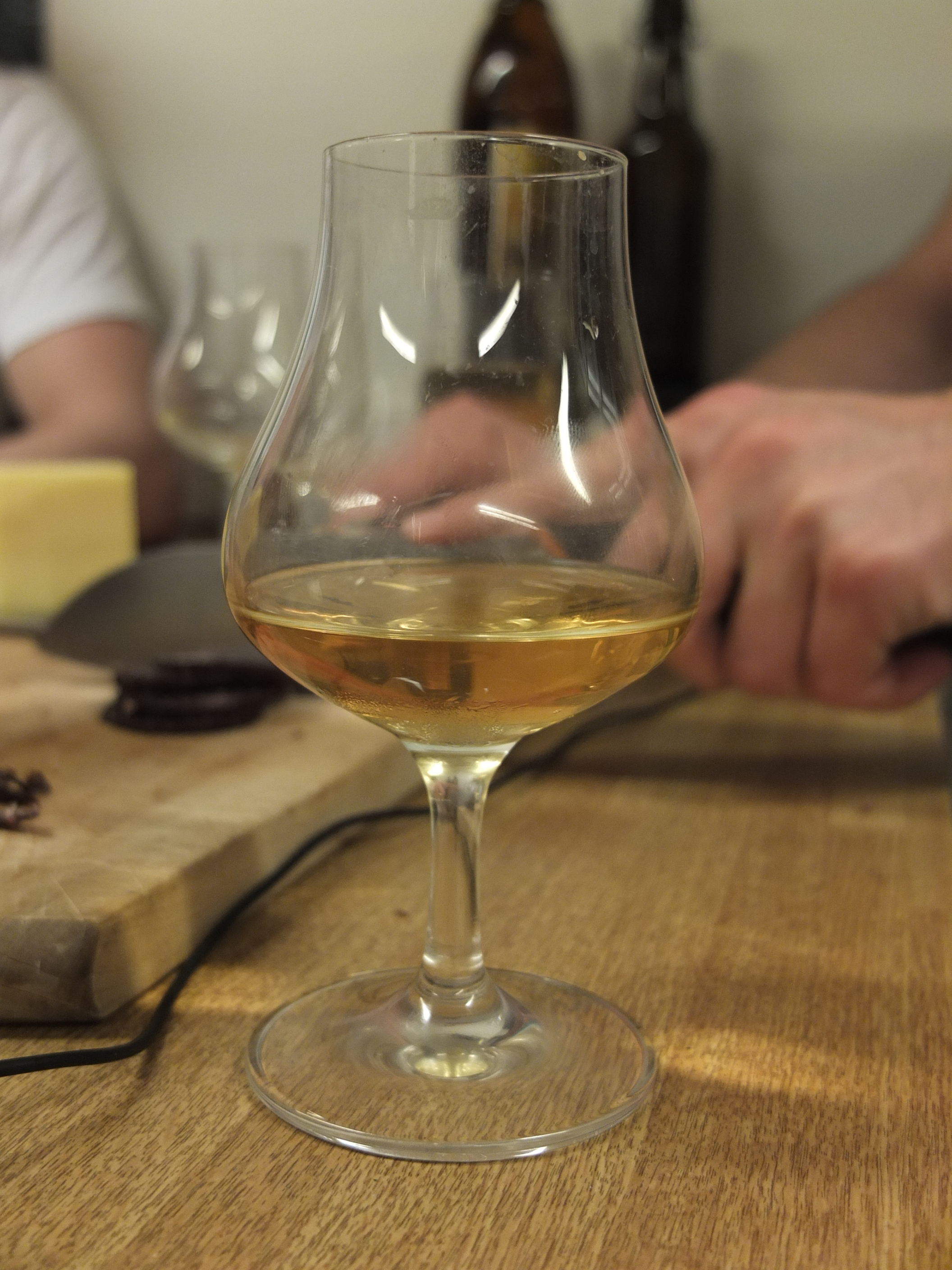 Whisky and reindeer sausage